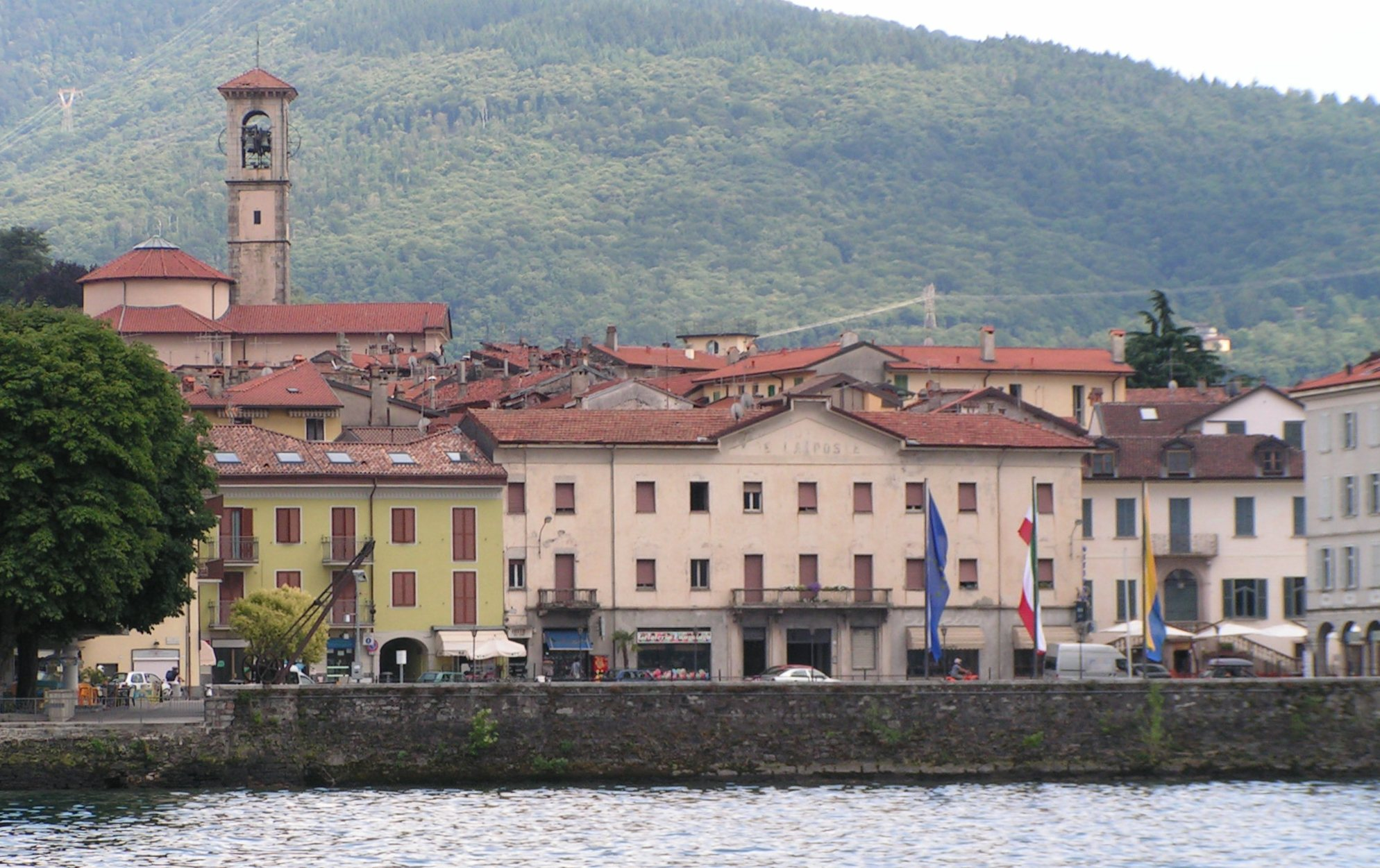 Luino's town centre, viewed from an excursion ship